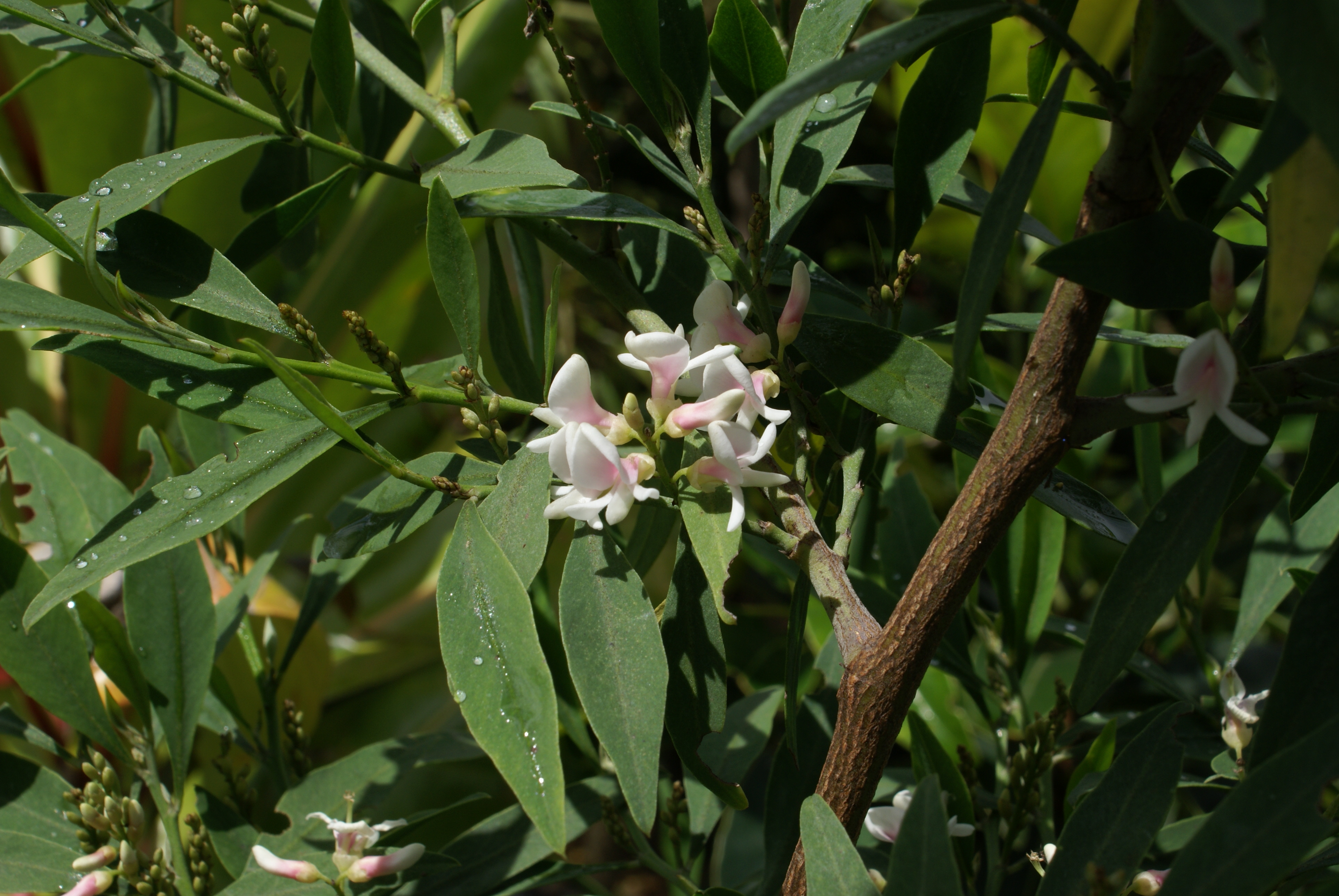 flowering Indigofera ammoxylum, a species of shrub endemic to Réunion island